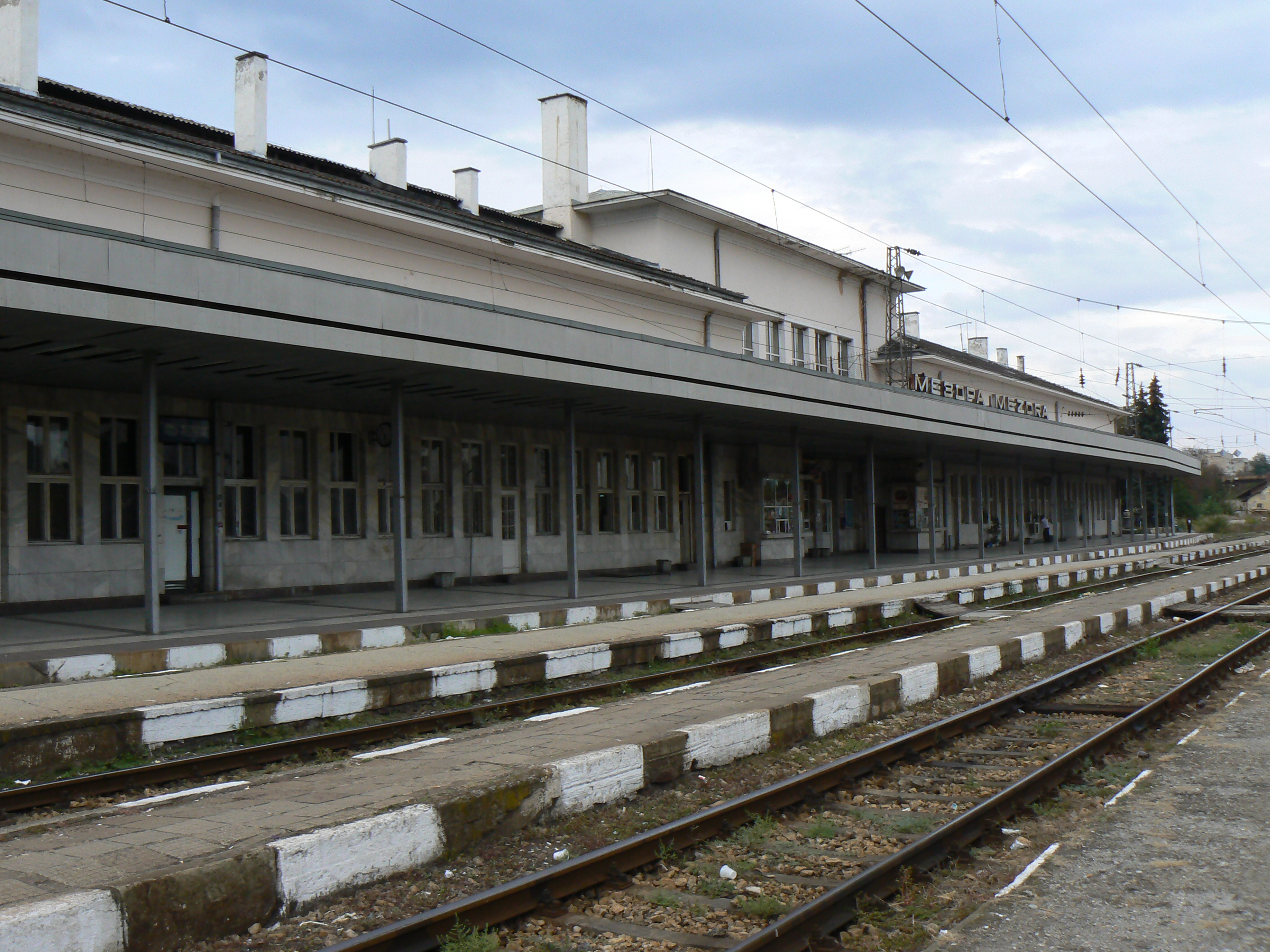 The railway station in Mezdra, Bulgaria